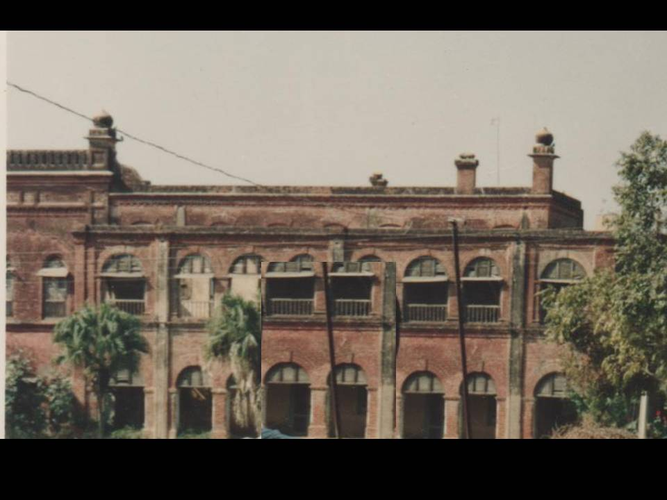 This fort existed at village Sidhuwal few years back